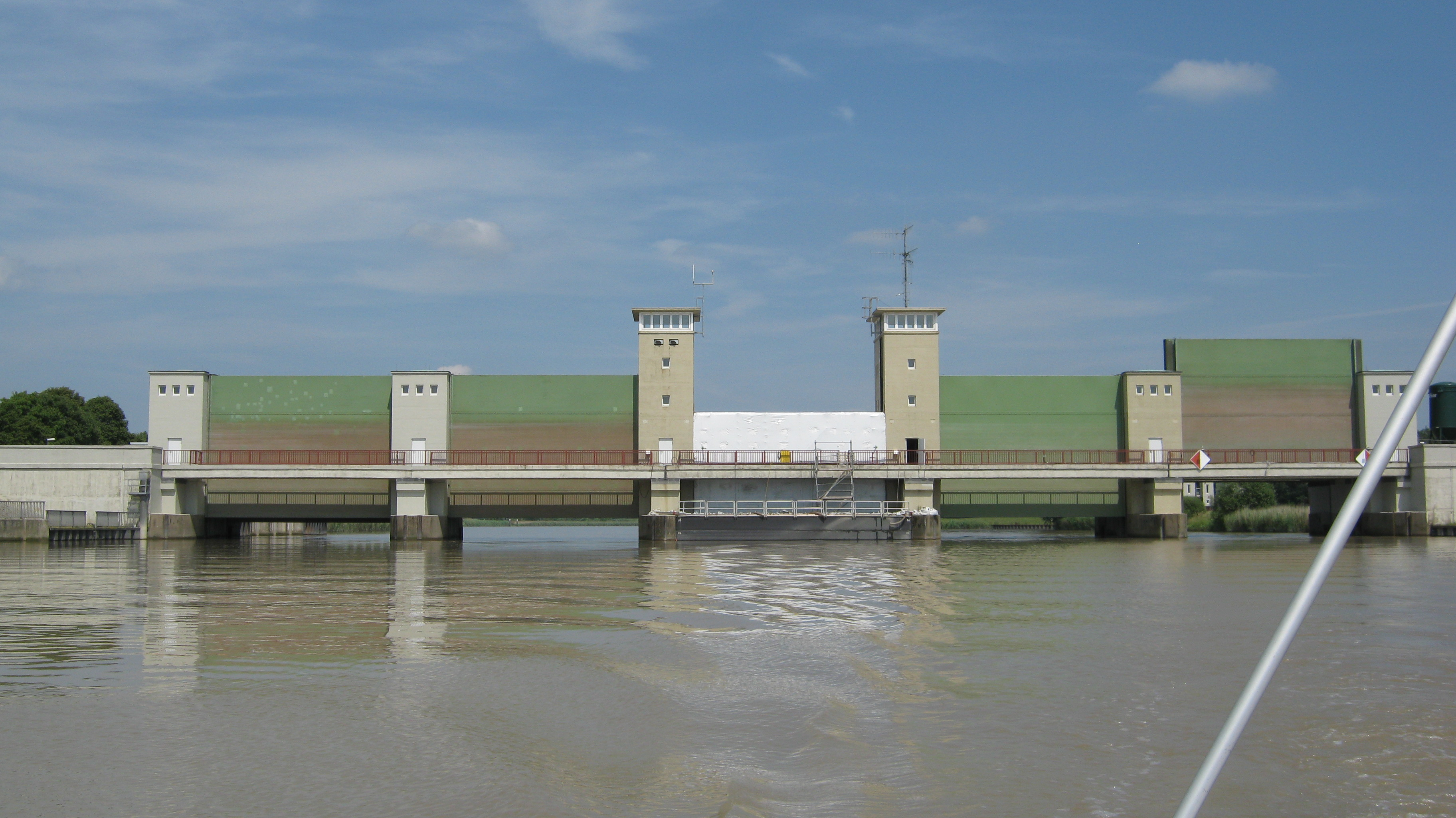 Leda Sperrwerk